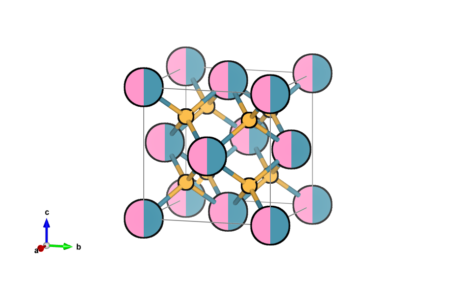 The Na:Ra YF4 Cubic cell. The NaYF4 structure in which Na is partially subsituted by Rare Earth Elements (Yb,Yt,Er). Na(Teal), RE(Pink), F(Yellow). Images Generated using Vesta Software